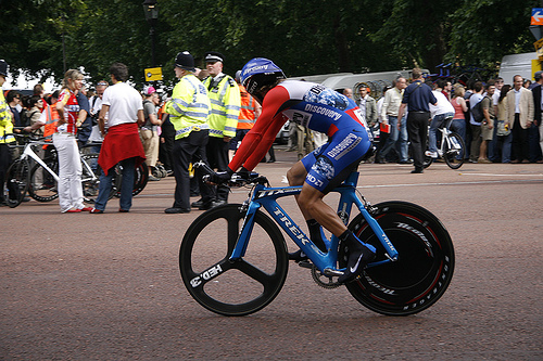 Vladimir Gusev at the prologue Tour de France 2007